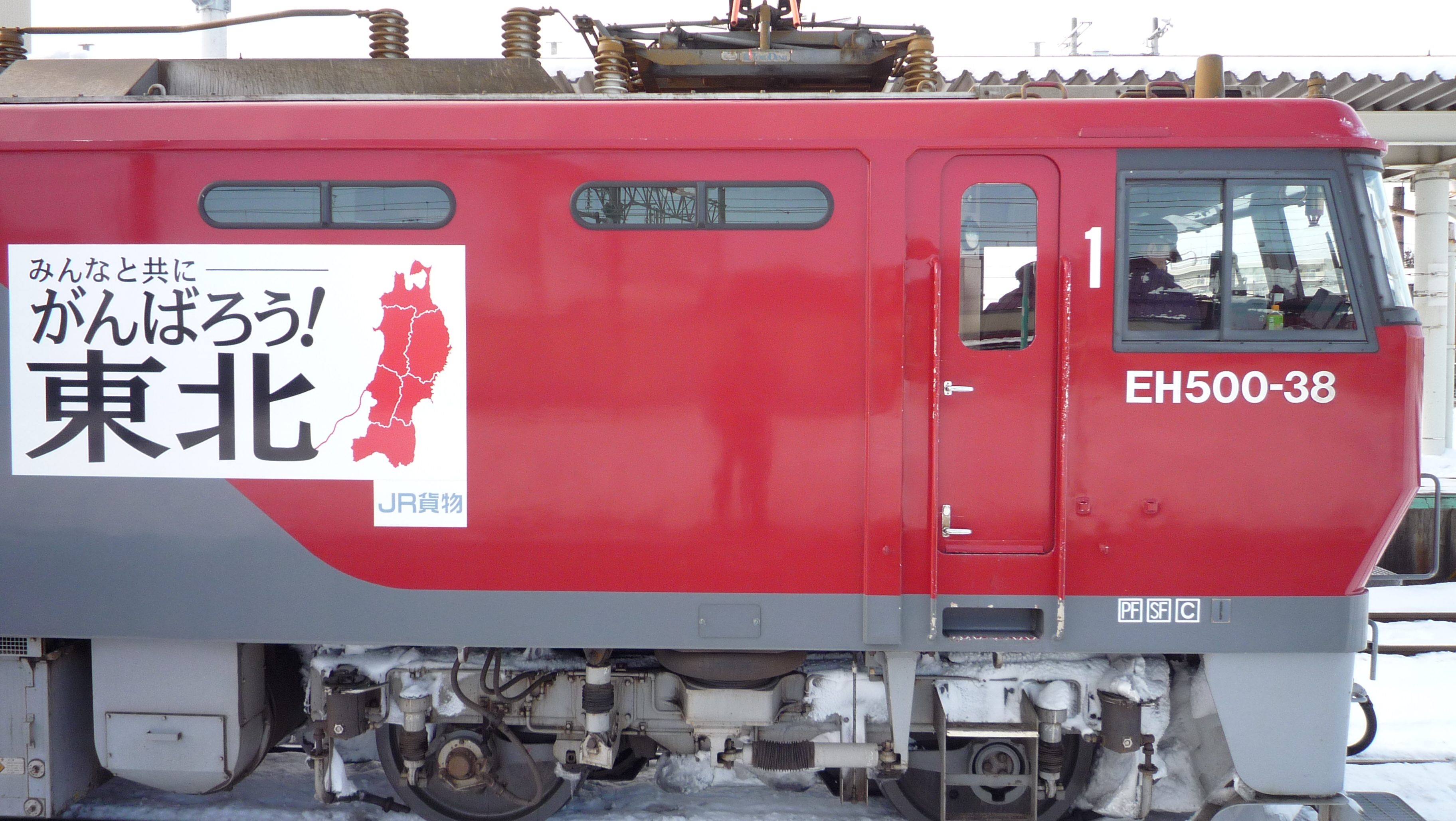 JR Freight Class EH500 electric locomotive EH500-38 at Hirosaki station with a "Cheer up Tohoku" sticker on the side added after the 2011 Tohoku earthquake